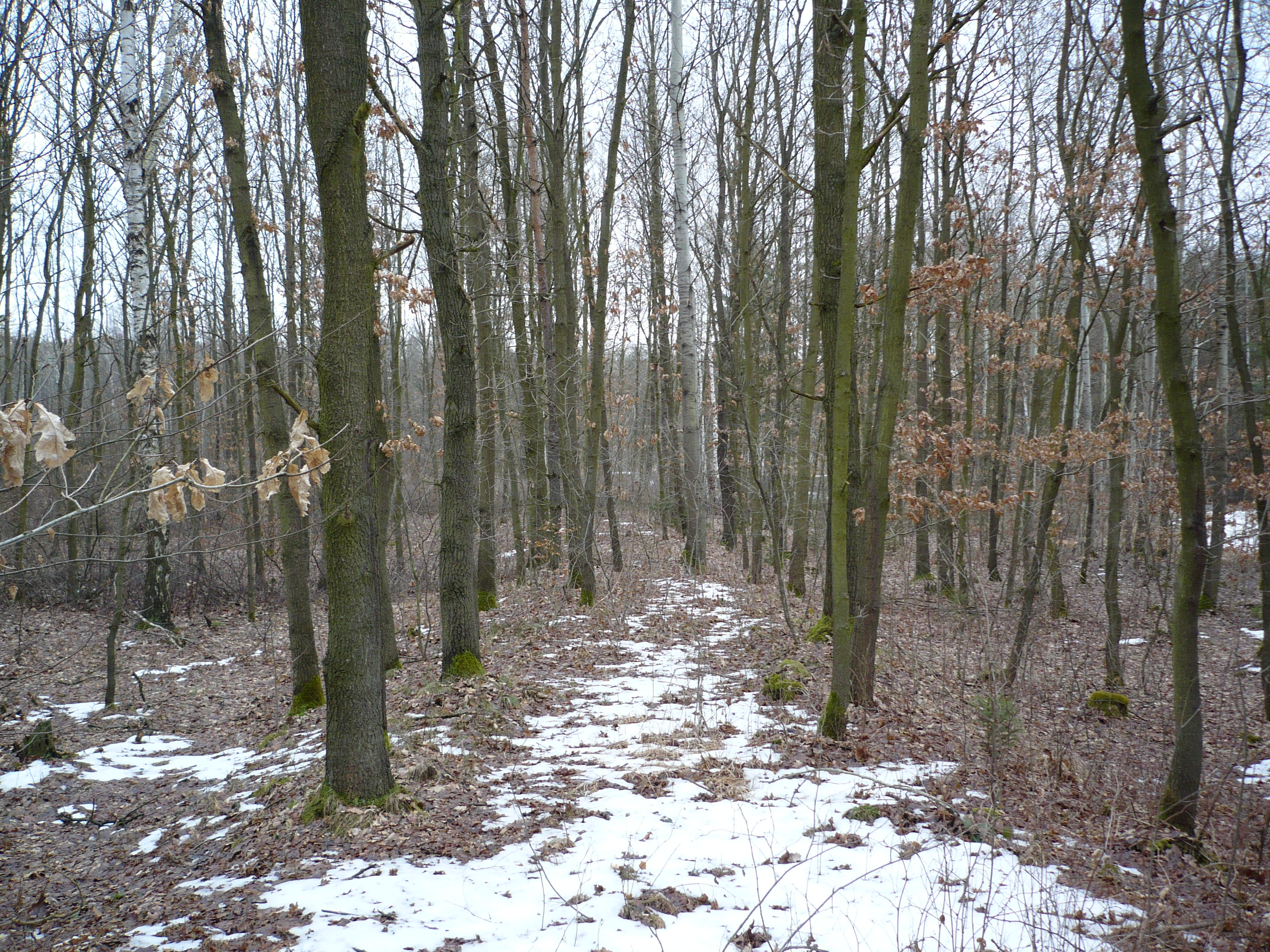 Horse-drawn railway Prague - Lány, embankment by Kamenné Žehrovice